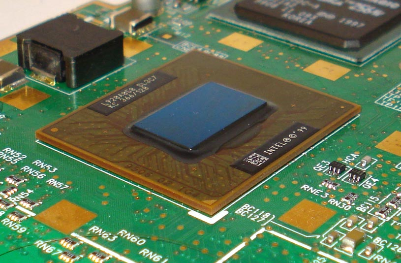 Mobile Celeron Coppermine, BGA1 package (with a string of hair at the bottom)